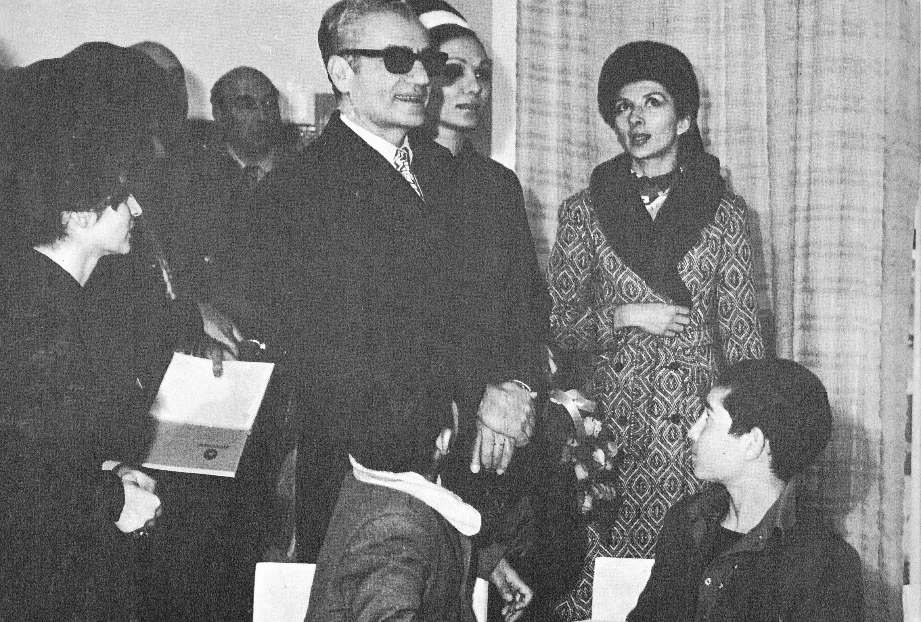 grand opening of a kanoon-e parvaresh library, Shah Mohammad Reza Pahlavi, Farah Pahlavi